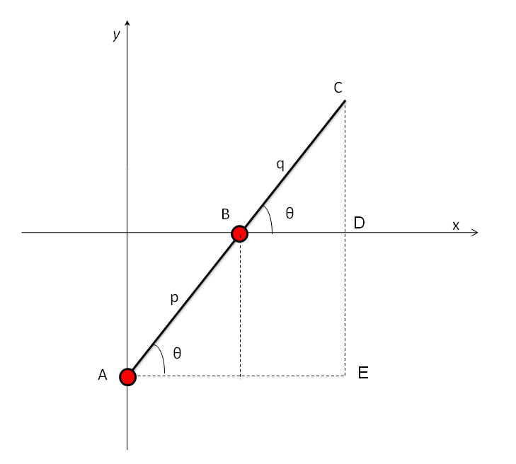 Diagram used to assist mathematical proof that Trammel of Archimedes locus is an ellipse.